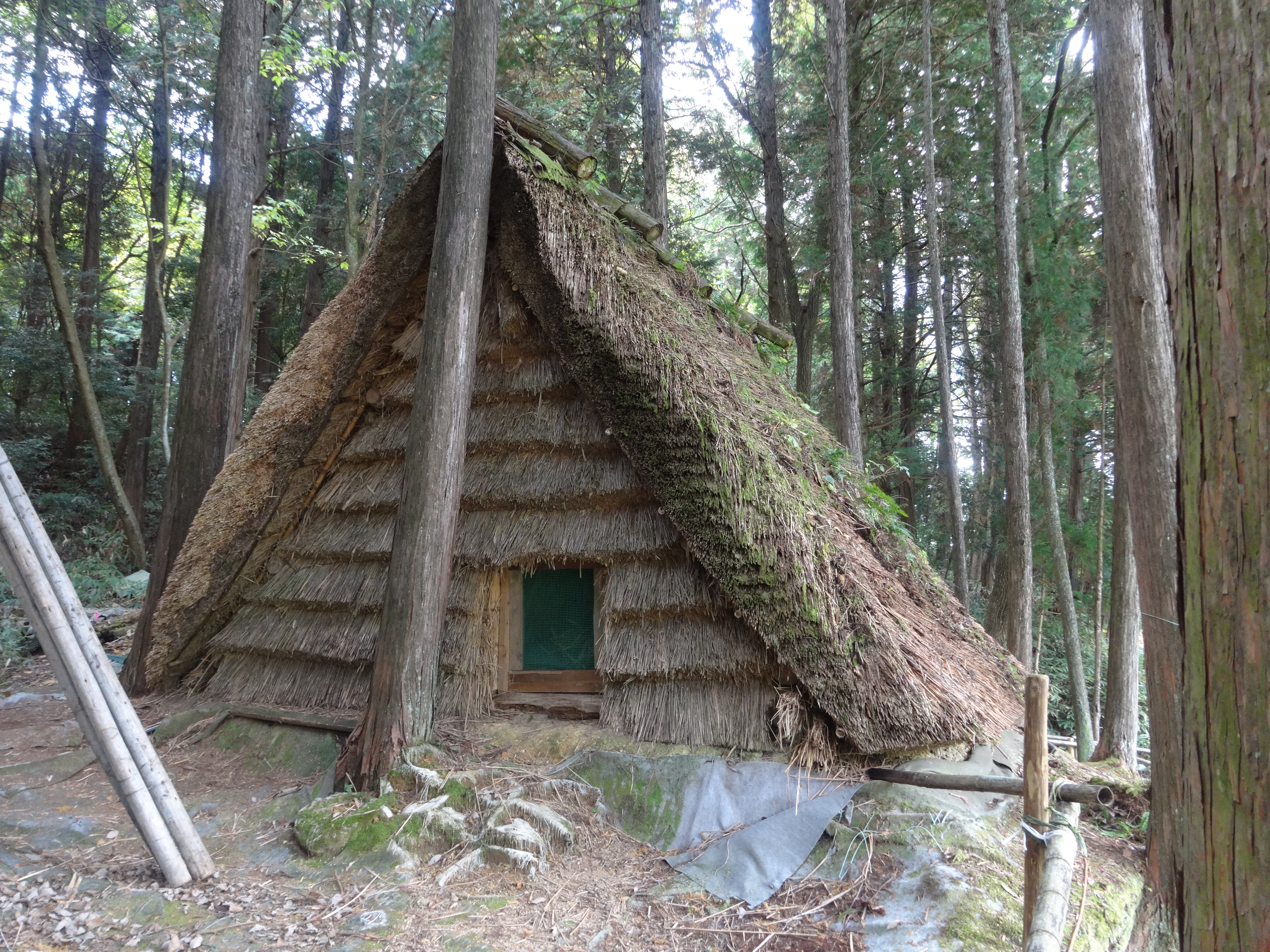 Icehouse in Fukusumi town in Tenri city, Nara prefecuture, Japan